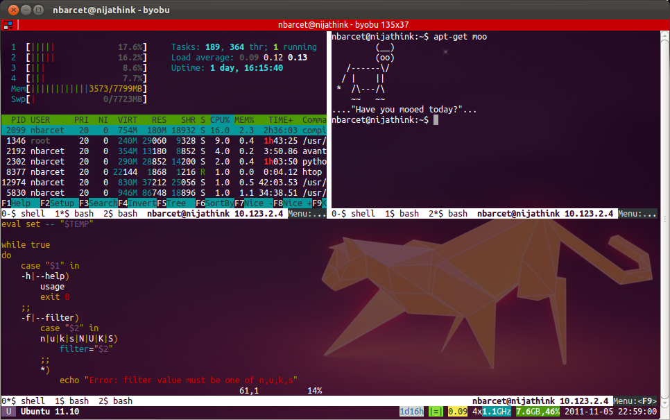 Screenshot of my terminal using byobu.